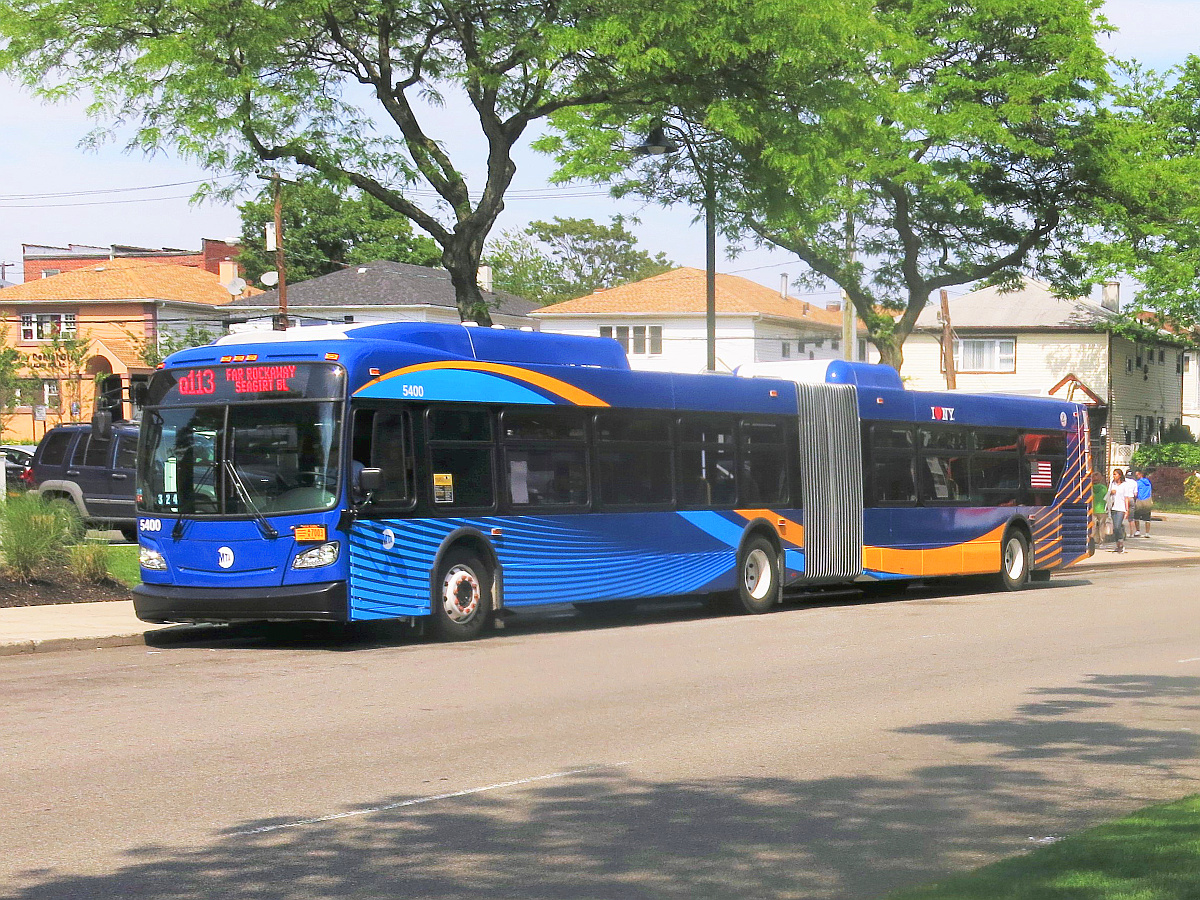 A Metropolitan Transportation Authority New Flyer Xcelsior XD60 articulated bus, #5400, is sitting at the final stop of the Q113/Q114 service from Jamaica, Queens, in Far Rockaway, Queens. Although operated by MTA Bus Company, the new livery (this example is from the first batch to receive the new livery, along with WiFi capability and USB charging outllets) eliminates all external distinctions between NYC Transit Authority/Manhattan and Bronx Surface Transit Operating Authority operated buses and MTA Bus Company operated buses. This livery, replacing the blue stripe livery, will eventually be applied to most of the fleet as the integration between all surface transportation units of the Metropolitan Transportation Authority as WiFi capabilities and USB charging ports